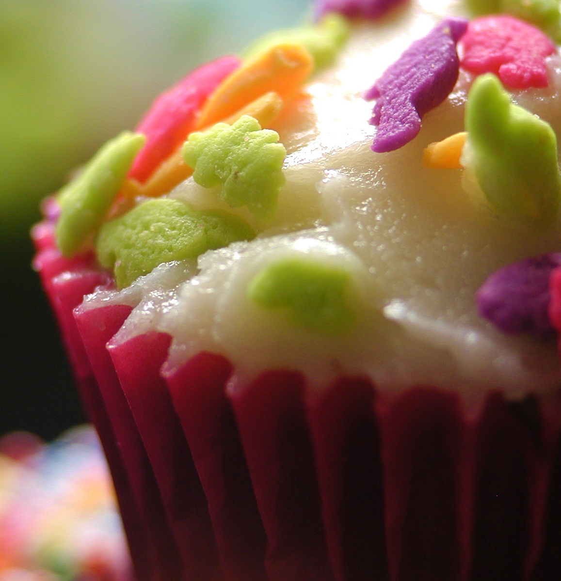 A cupcake with sweets.